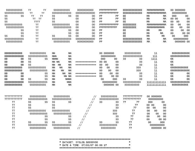 Example of a line printer "banner page" generated by TSS/370